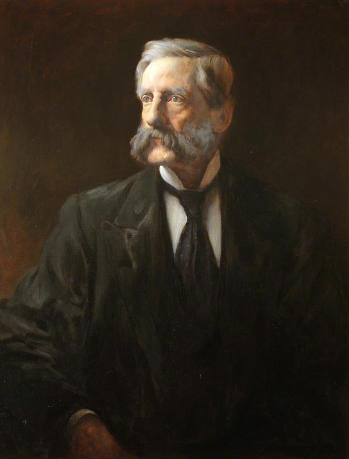 Arthur Hill Hassall, MD (1817–1894), Founder of the Royal National Hospital, Ventnor (1868)